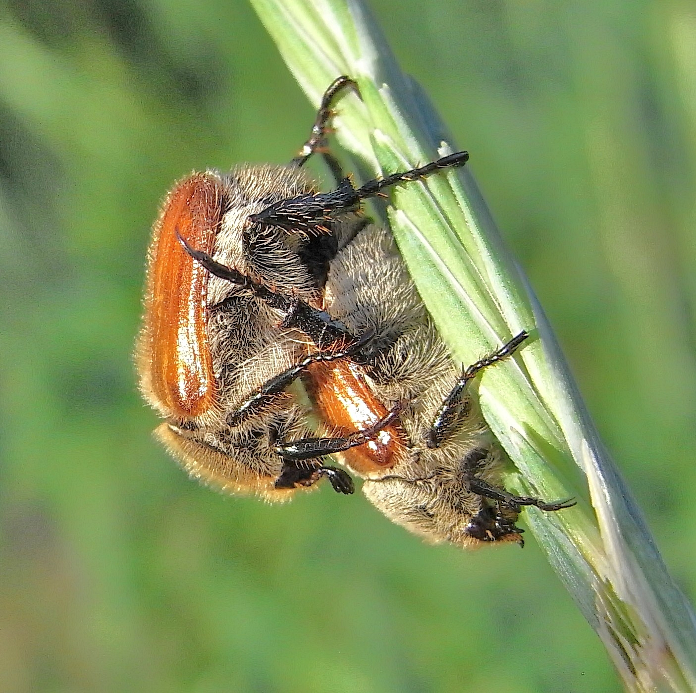 Chaetopteroplia segetum from East-Hungary, at 2010-06-07 near Urszölöskert Ricoh R8